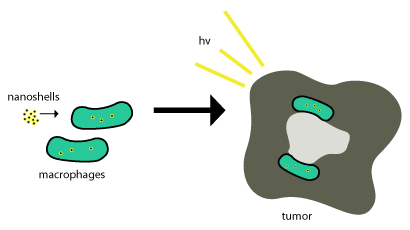 Macrophages intake the nanoshells into the tumor cells